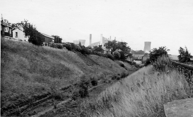 Site of Blackhill Station. View southward, towards Bishop Auckland (via Tow Law) and Durham. Station served by passenger trains from Bishop Auckland (withdrawn north of Tow Law 5/39), Newcastle via Lintz Green until 1/2/54 (goods 11/11/63) and lastly from Newcastle via Birtley and Consett until 23/5/55 when station and lines were closed.